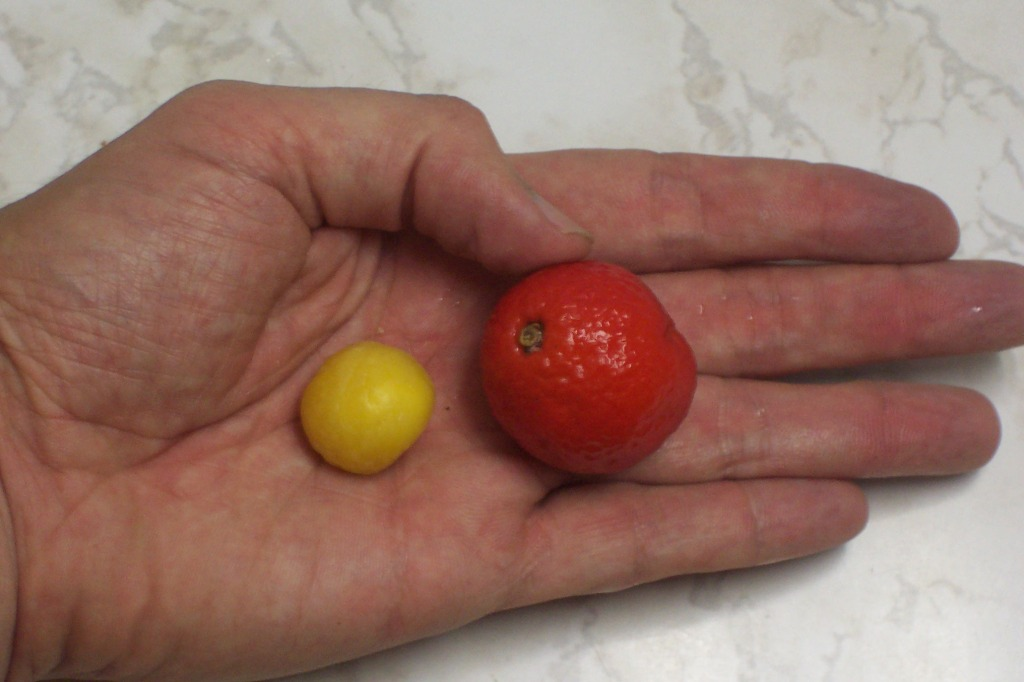 Fruit of Diploglottis campbellii (YELLOW) & Hicksbeachia pinnatifolia (ORANGE) - hand of Peter Woodard